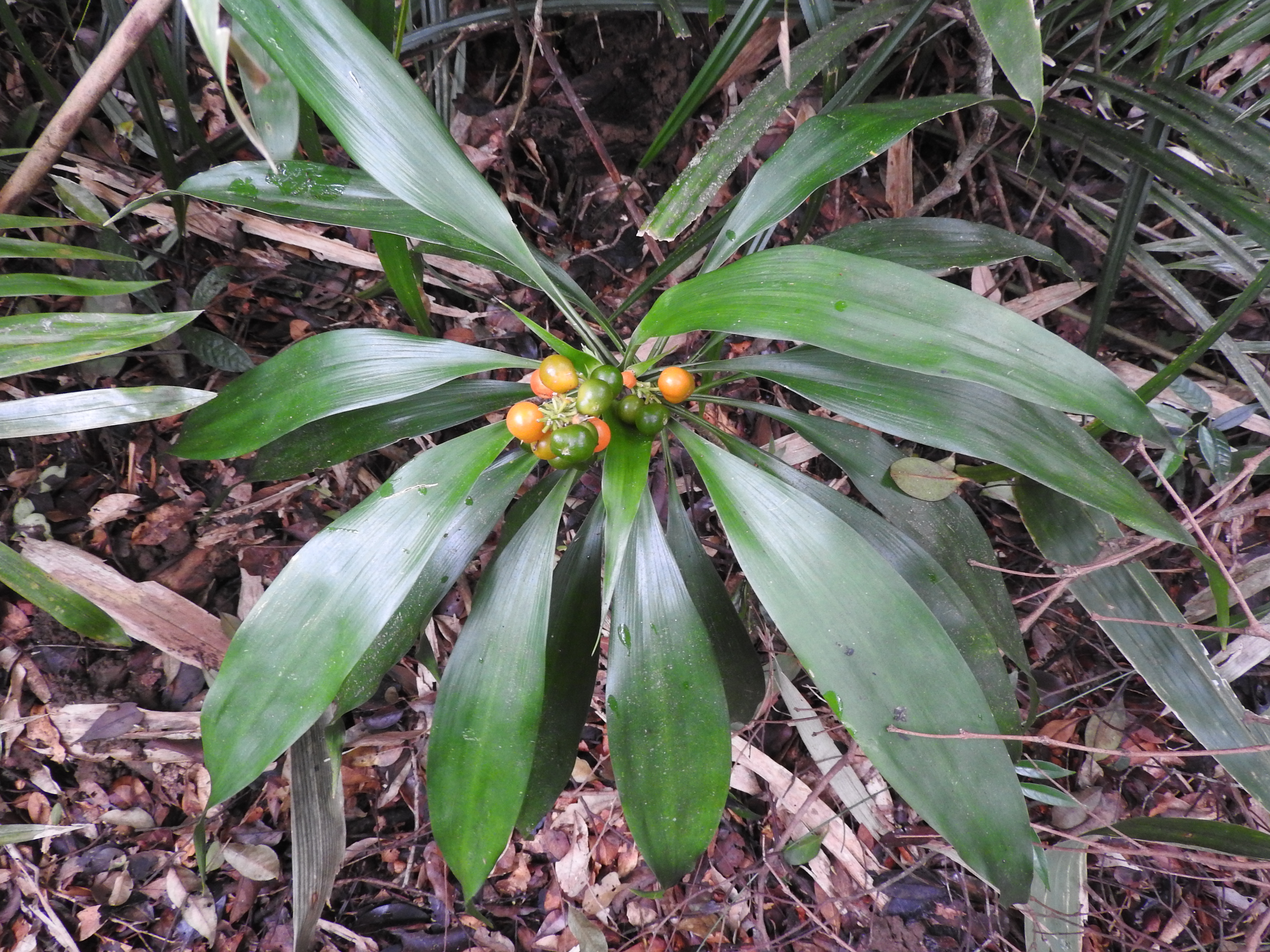 Liliaceae-shrub,flowers yellow,fruits orange red.